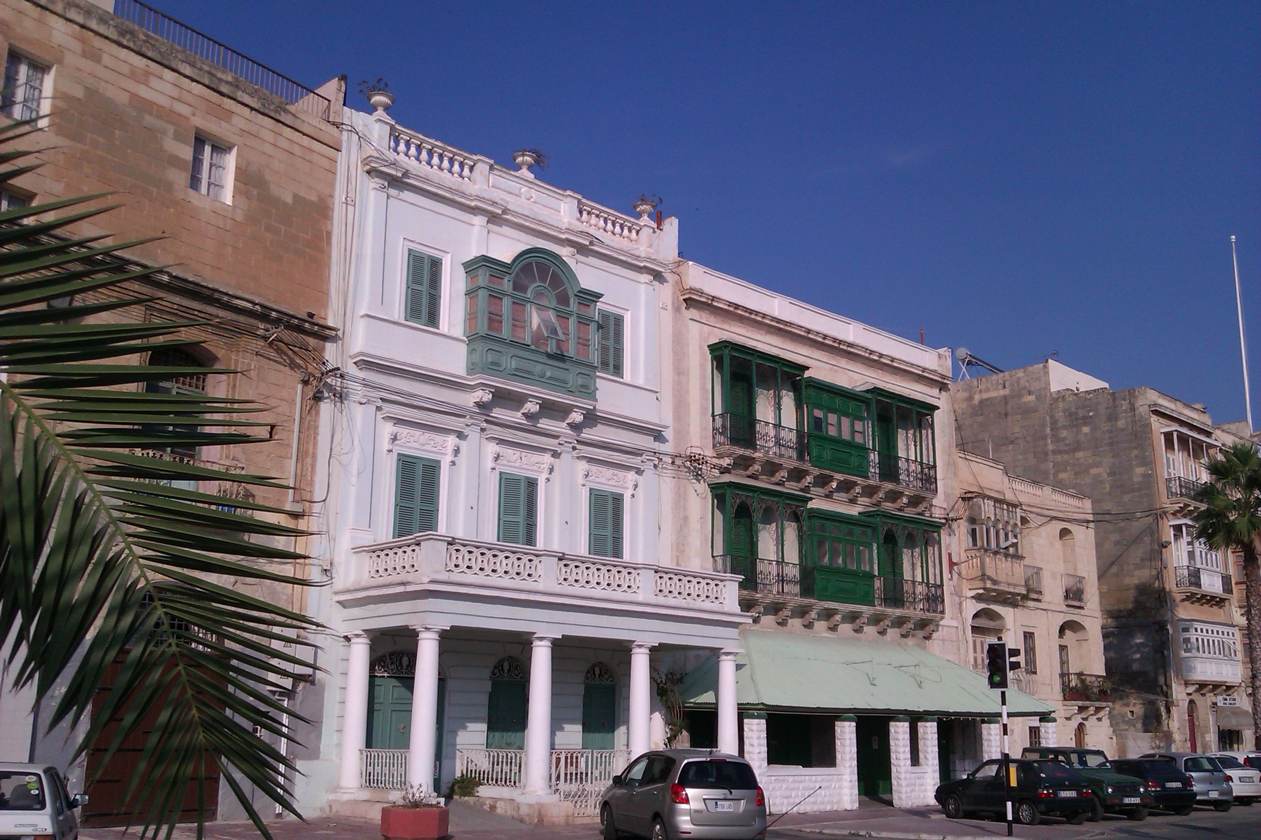 Grand townhouses along the Kalkara waterfront in Malta